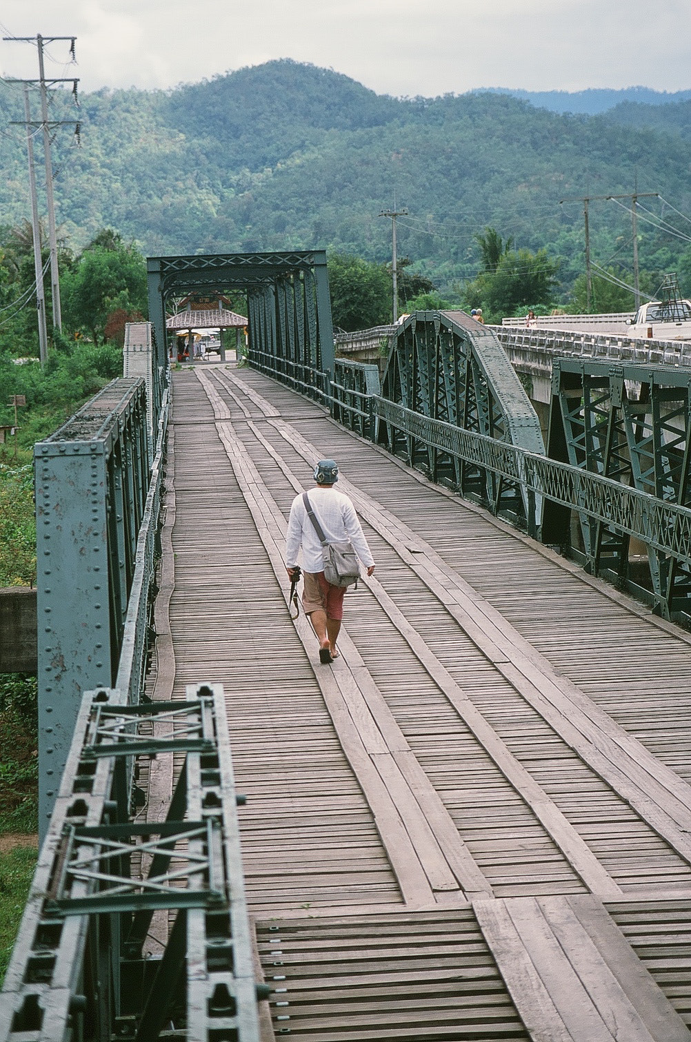 500px provided description: Pai In Colors 2009 [#Thailand ,#Travel ,#Mae Hong Son ,#Pai]